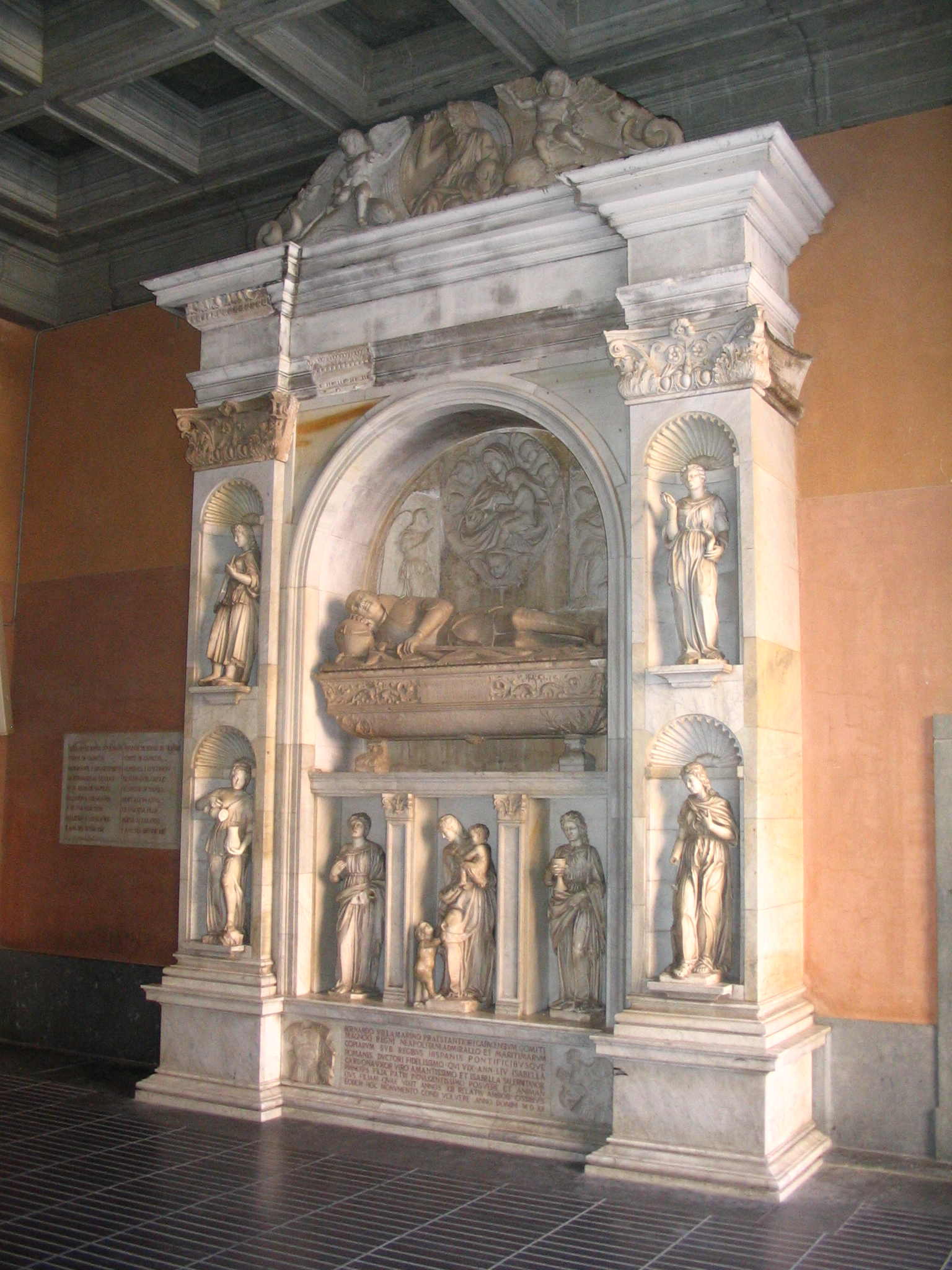 Sculpture at the monastery of Montserrat.